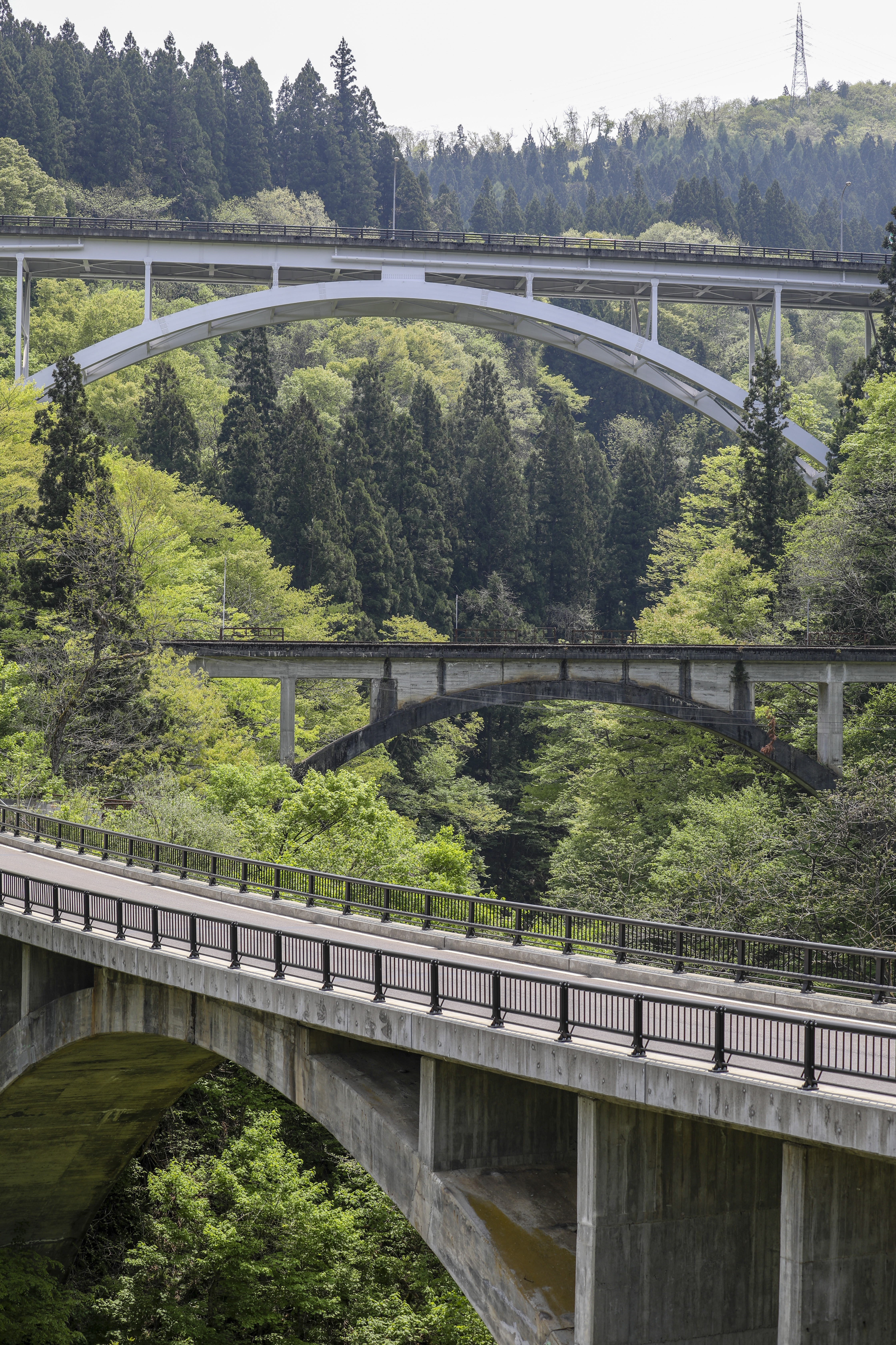 3 Bridges near Aizu-Miyashita Station in Fukushima prefecture, Japan